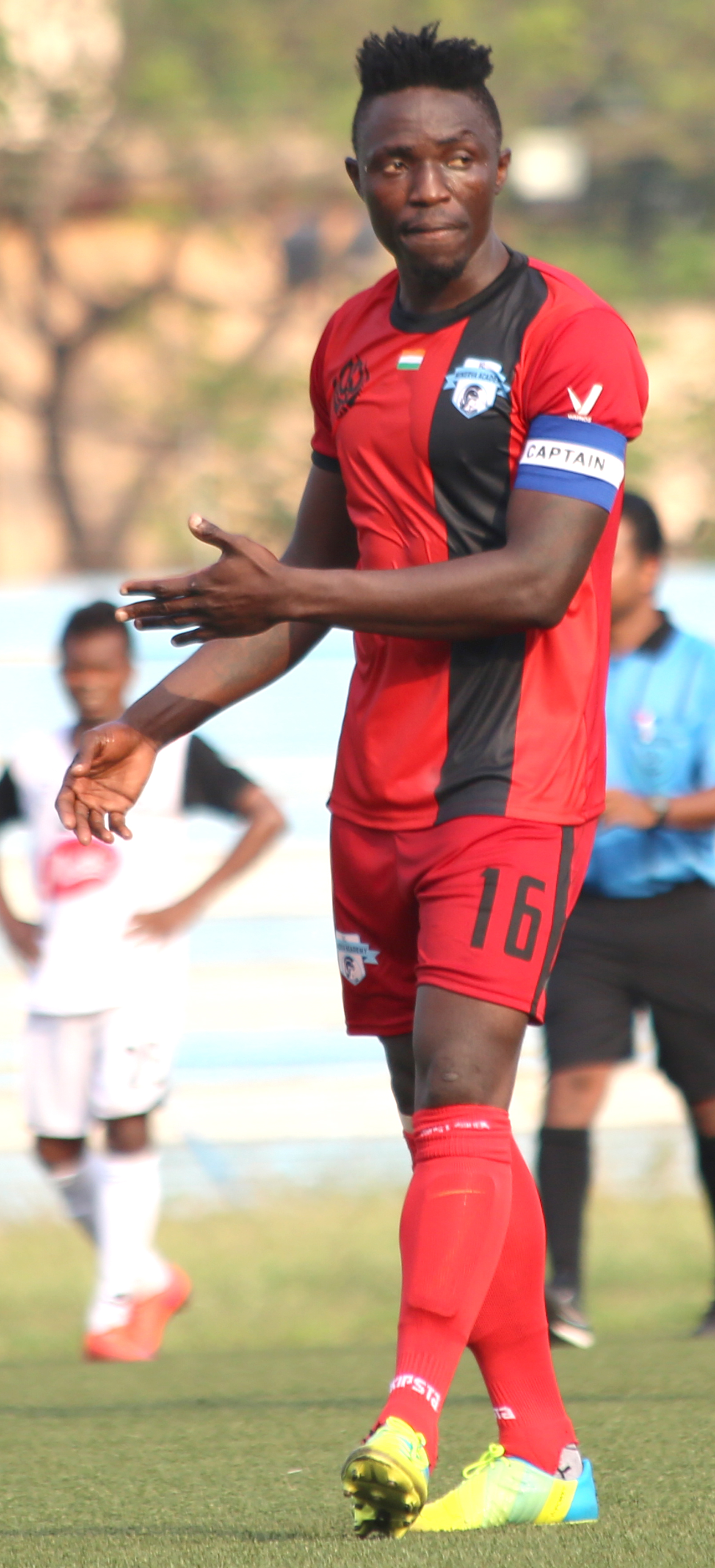 Kareem Omolaja Nurain at Barasat Stadum.